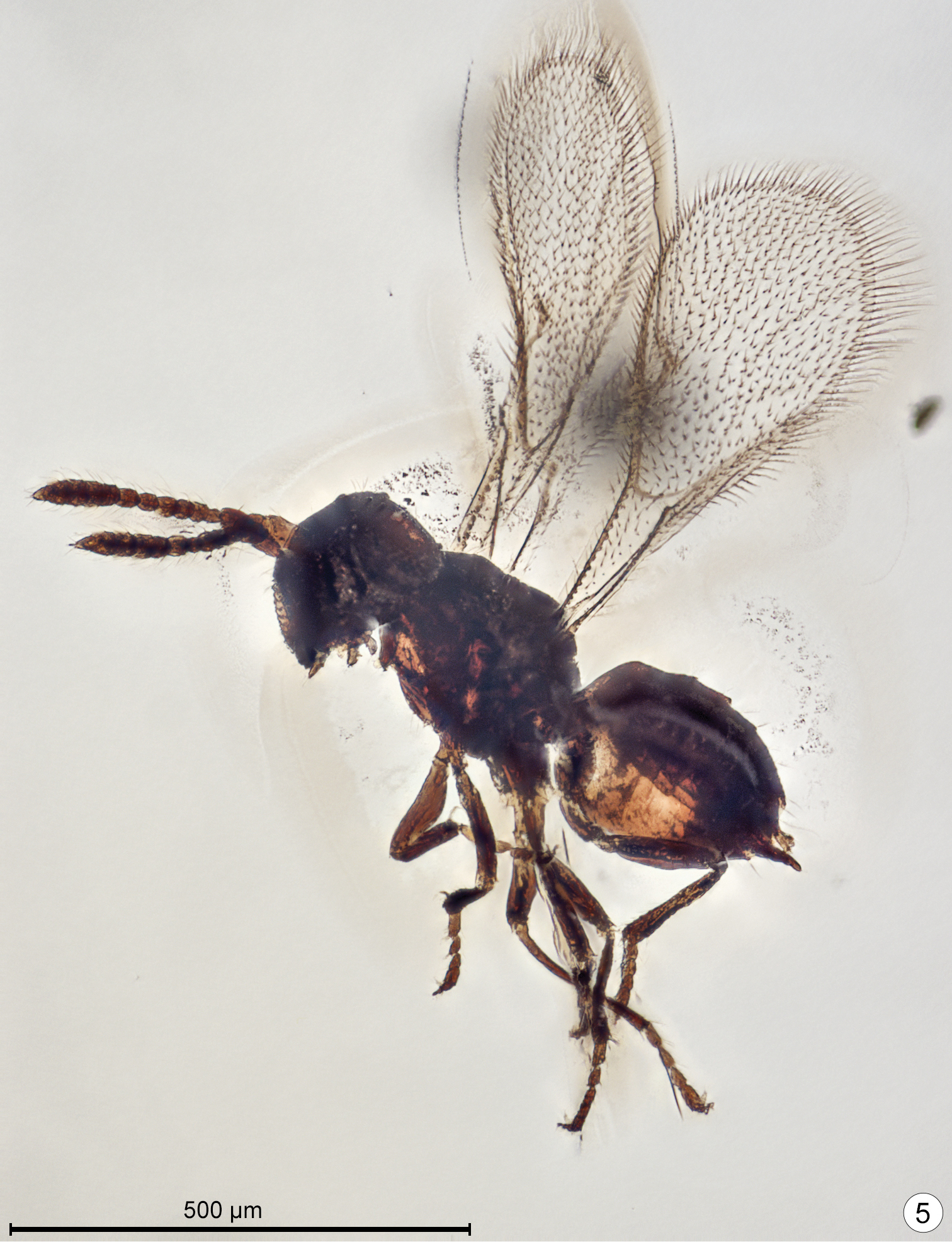 allotype male of Baeomorpha liorum, an extinct parasitic wasp